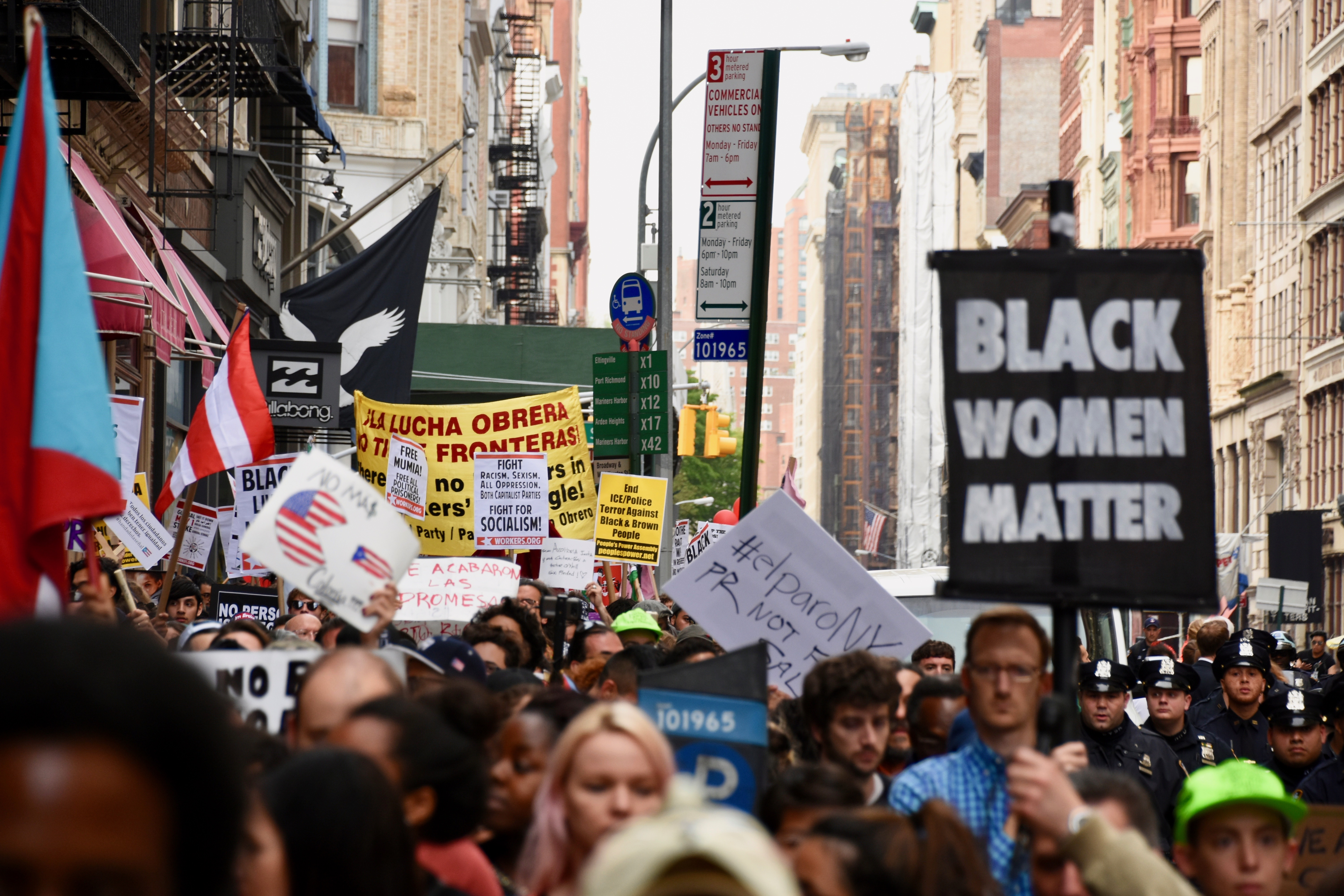 Black Women Matter May Day 2017 in New York City